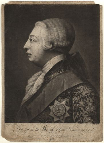 George III of the United Kingdom